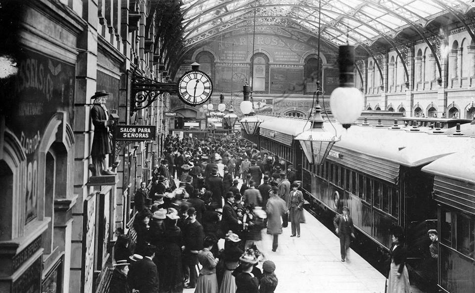 Former President of Argentina, Carlos Pellegrini, before taking the train in Constitución station that carried him the city of La Plata. In that city Pellegrini and his wife boarded the ship "Thames" to make a trip to Europe.